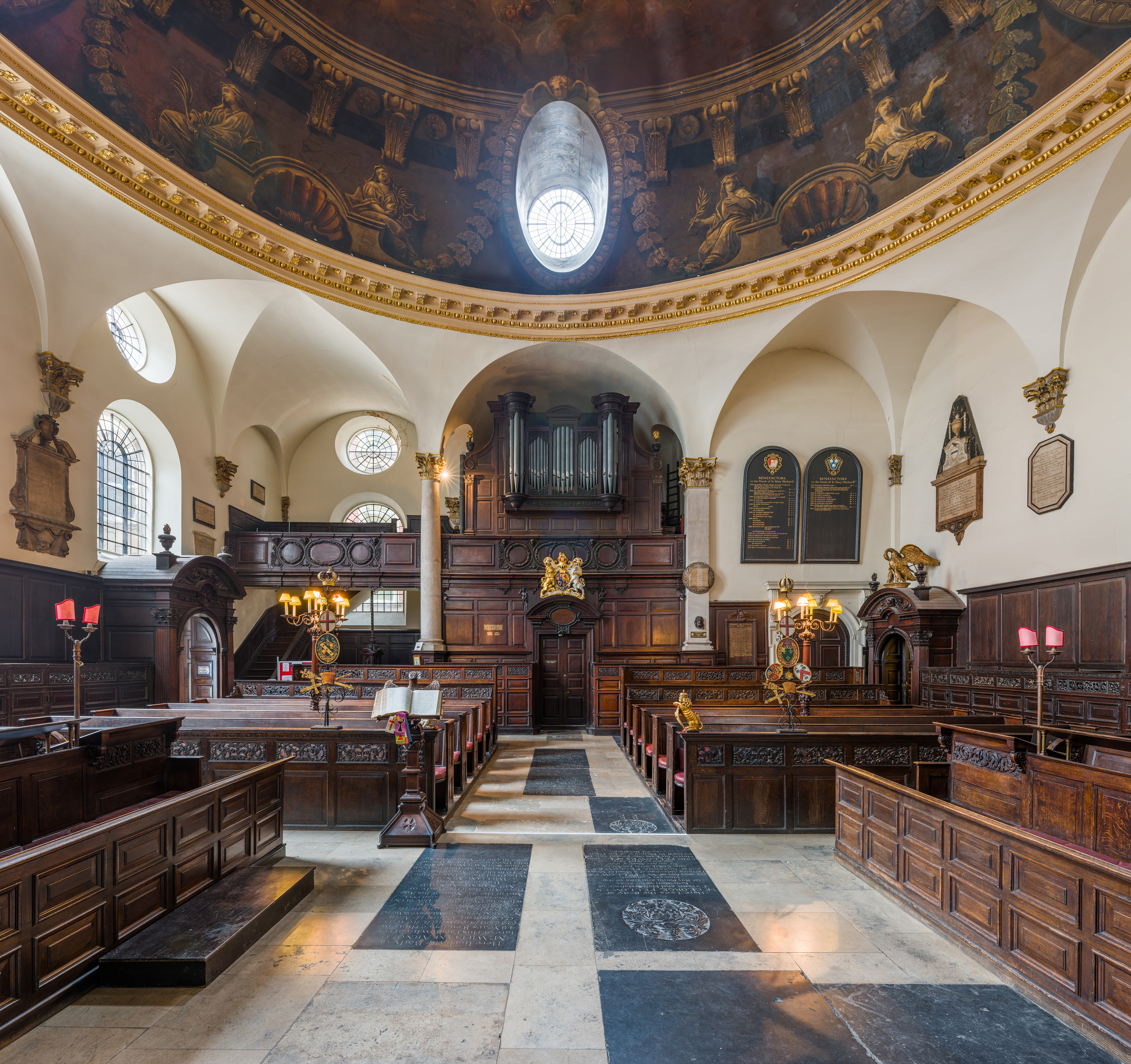 The interior of St Mary Abchurch facing west toward the organ.